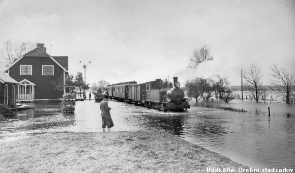 The railwaystation at Kvismaren, Sweden